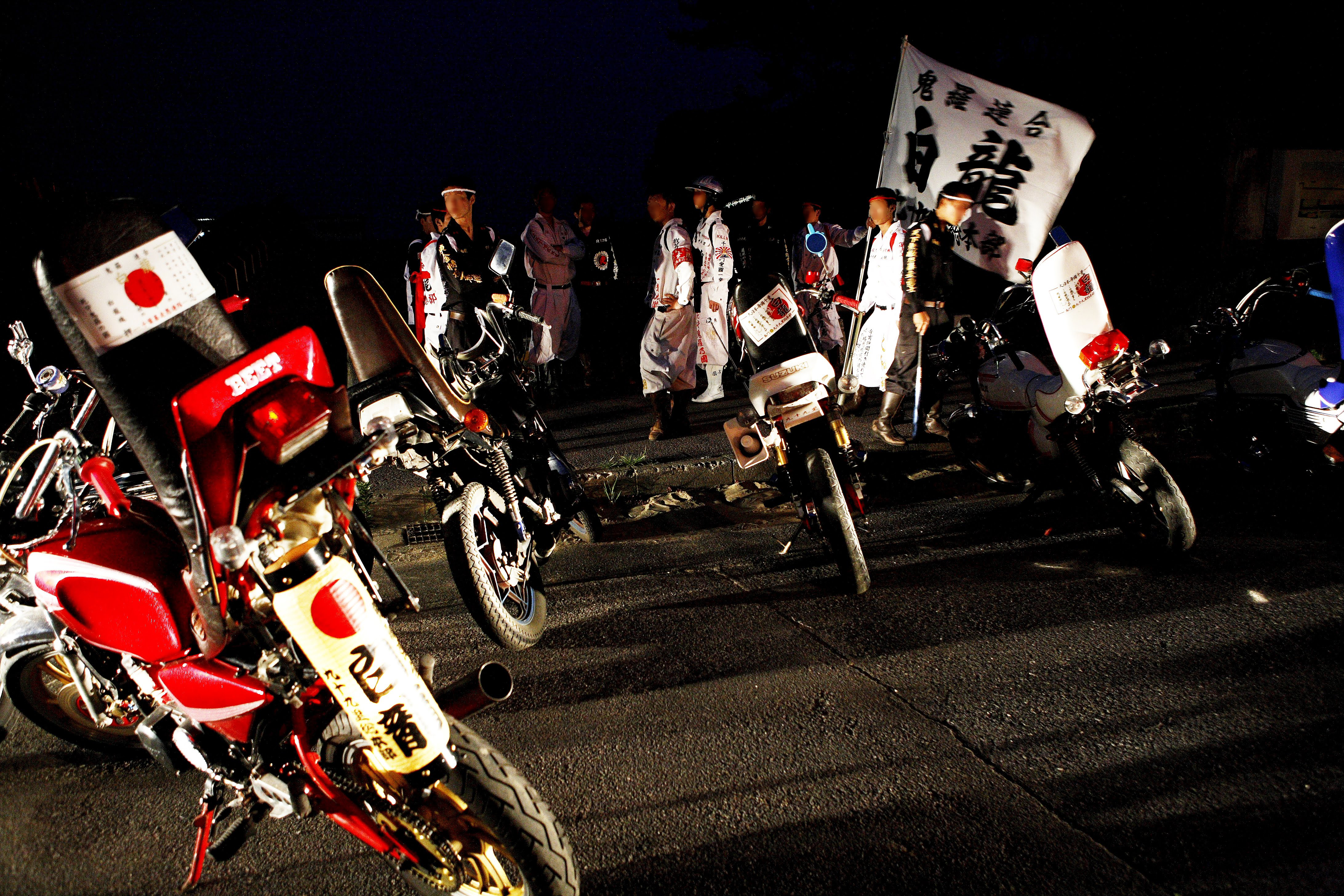 鬼羅連合 白龍 九十九里総本部